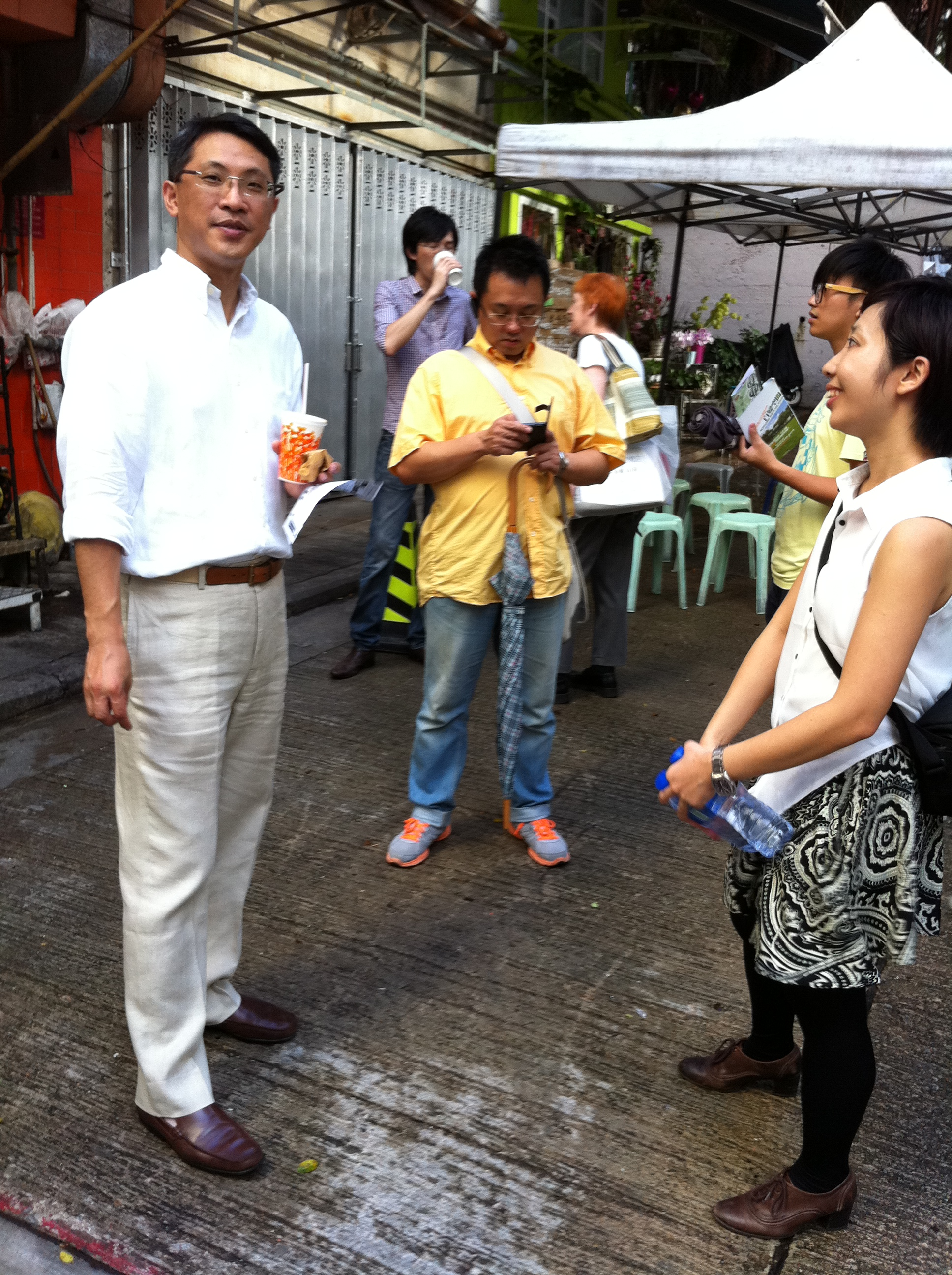 黃永 Vincent WONG Wing Tai Ping Shan Street, Sheung Wan, Hong Kong